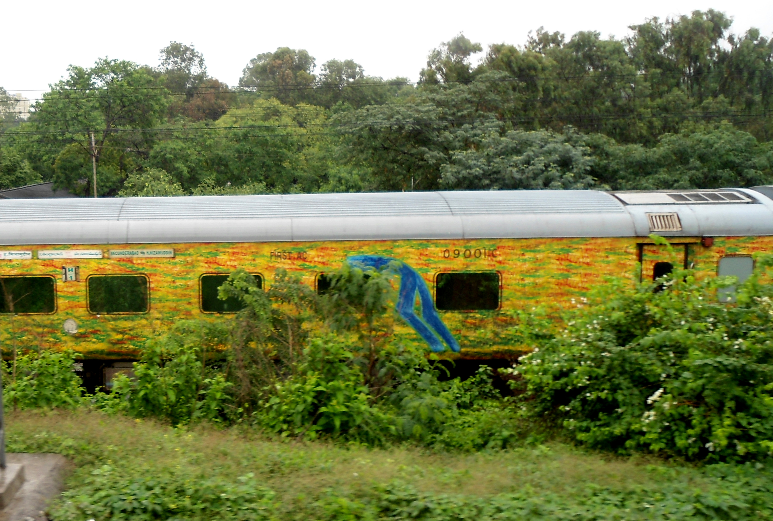 Nizamuddin - SC Duronto at Secunderabad railway station (Outer)